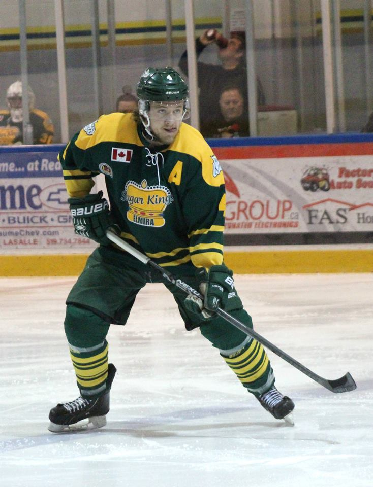 This photo was taken by Devan Mighton during the 2014-15 GOJHL season.